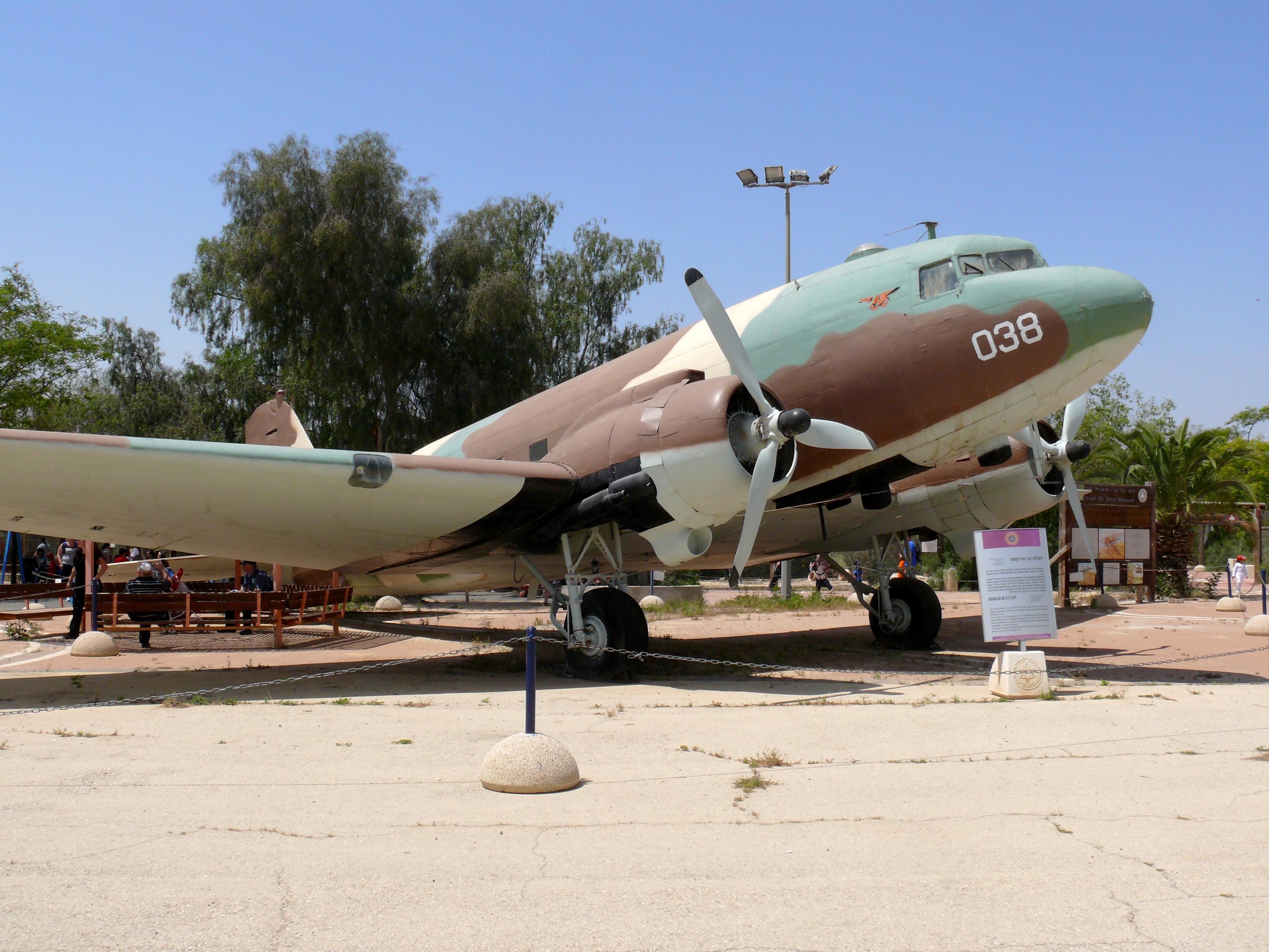 Douglas DC-3 Dakota of the Israeli Air Force, IAF Museum at Hatzerim